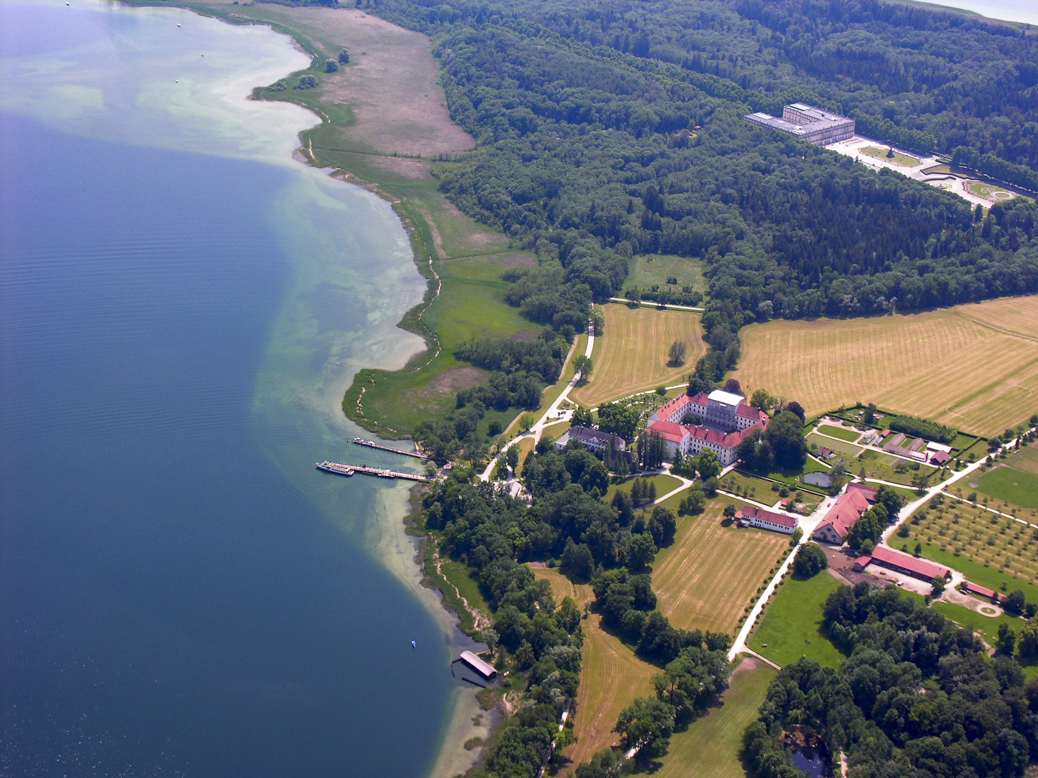 Germany, Bavaria, Herrenchiemsee Monastry